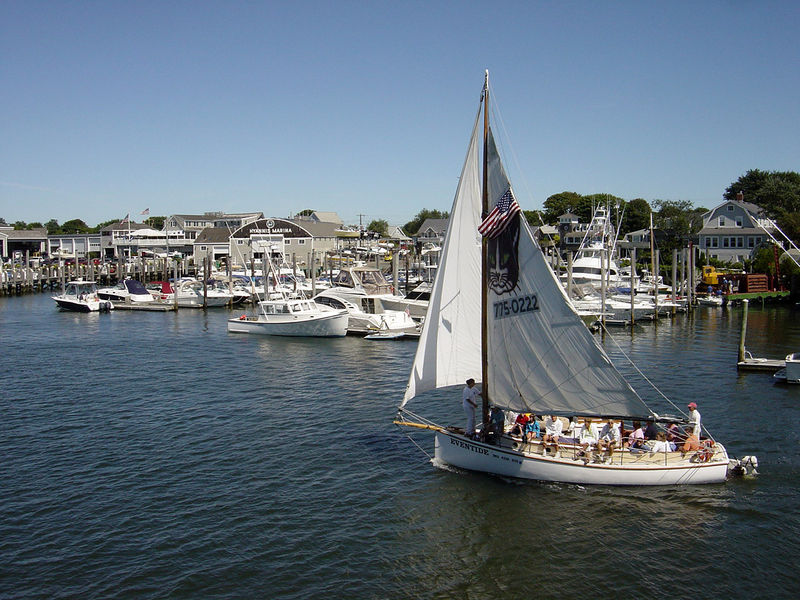 Harbor of Hyannis, Massachusetts showing charter sailboat Eventide [1] with Hyannis Marina in background. Photo taken by Bobak Ha'Eri. August 2004. Please observe license and properly cite in use outside Wikipedia.